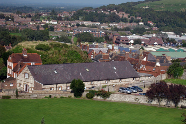 The Malthouse, Castle Precincts, Lewes, East Sussex Grade II listed